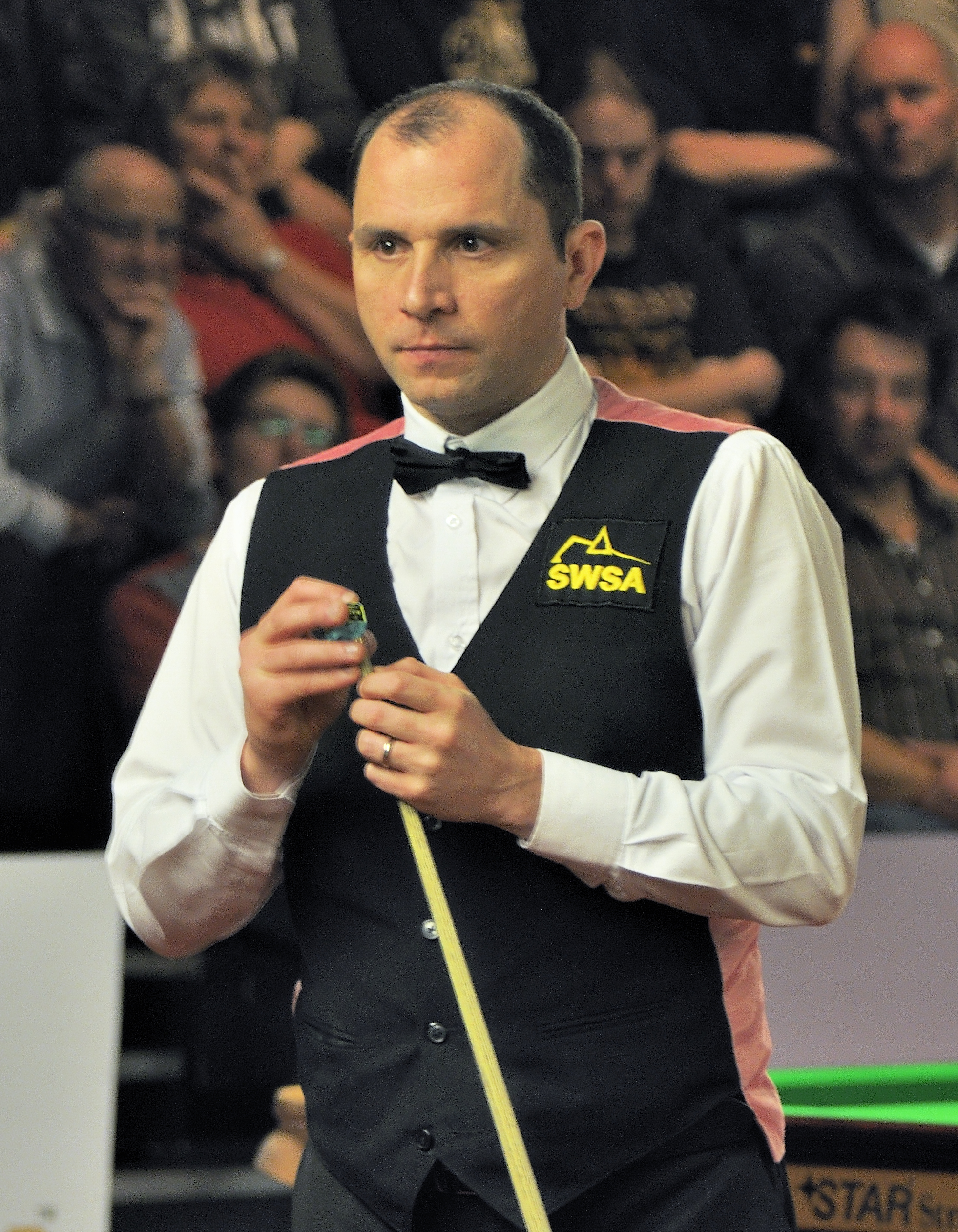 Picture taken in Berlin during the Snooker German Masters in 2014. Joe Perry.